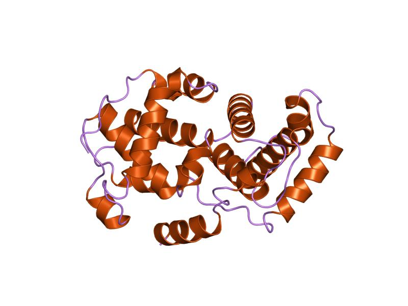 Cartoon representation of the molecular structure of protein registered with 1vin code.